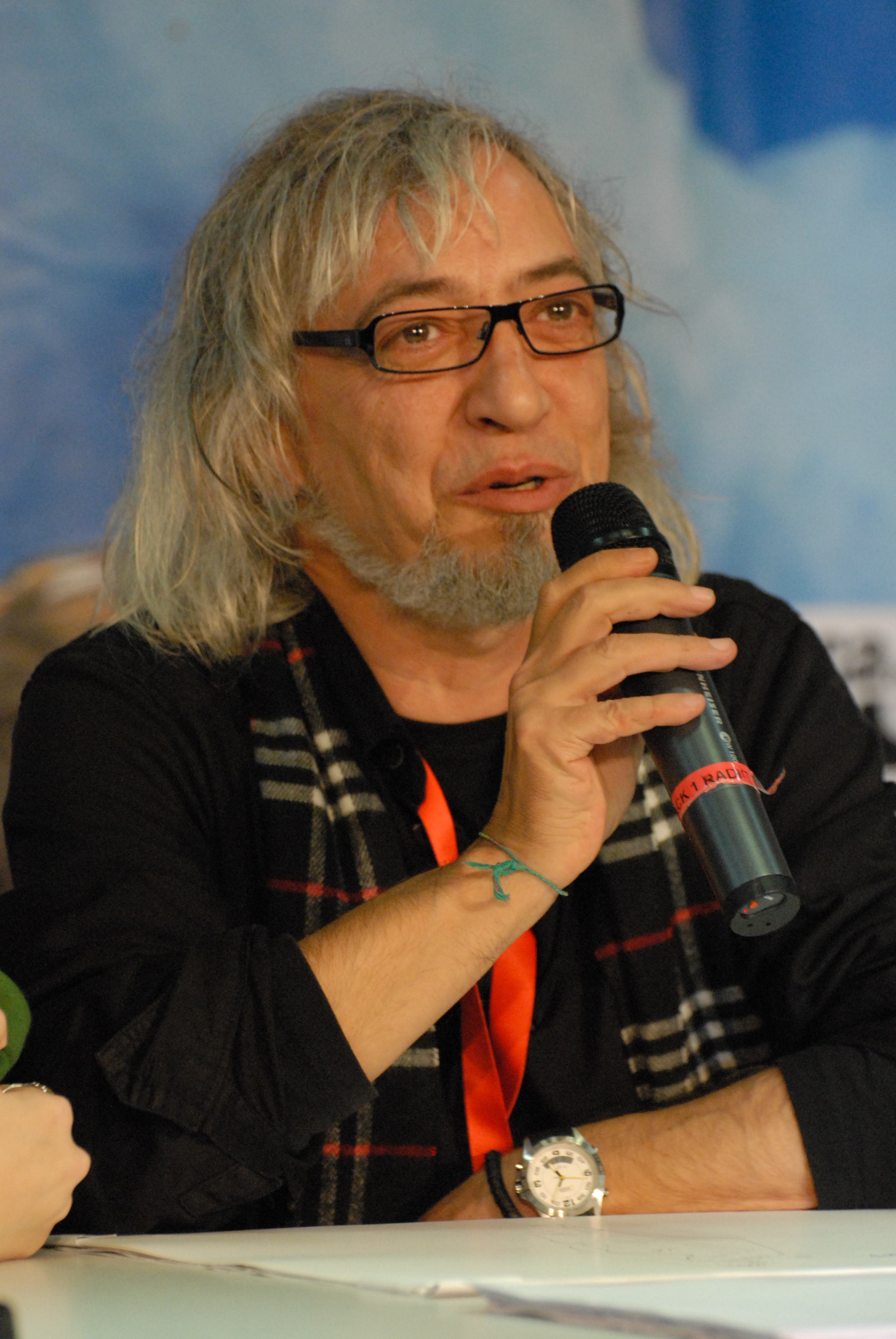 Luis Royo Photo taken during Lucca Comics&Games 2010